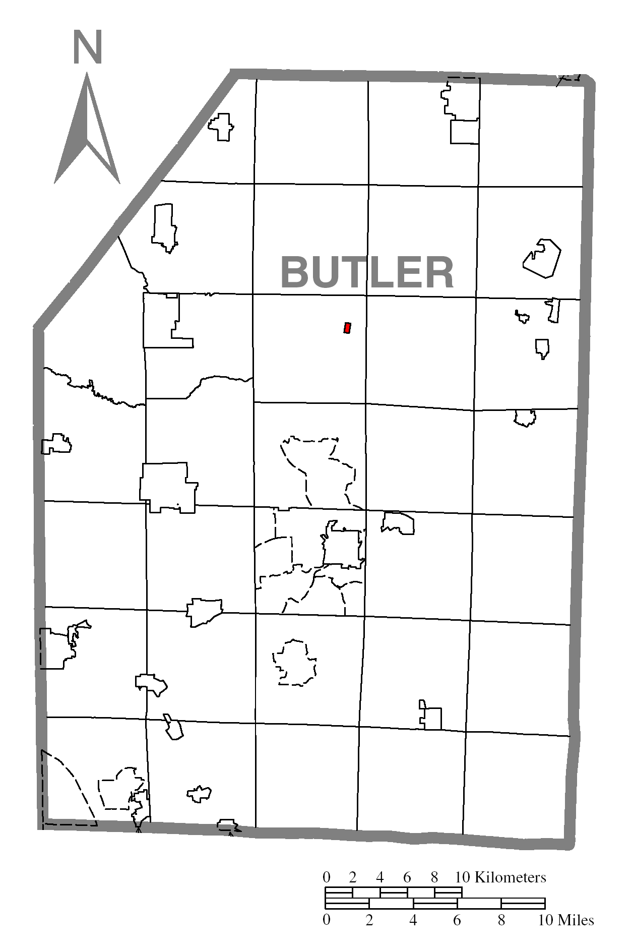 A map of Butler County showing West Sunbury, Pennsylvania (alternate) highlighted on the map.